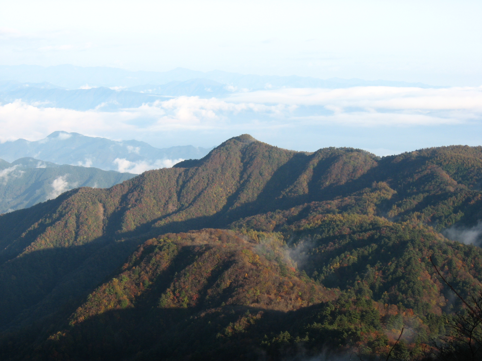 Mt.Sodehira as seen from Mt.Hirugatake, Mts.Tanzawa, Honshu, Japan.